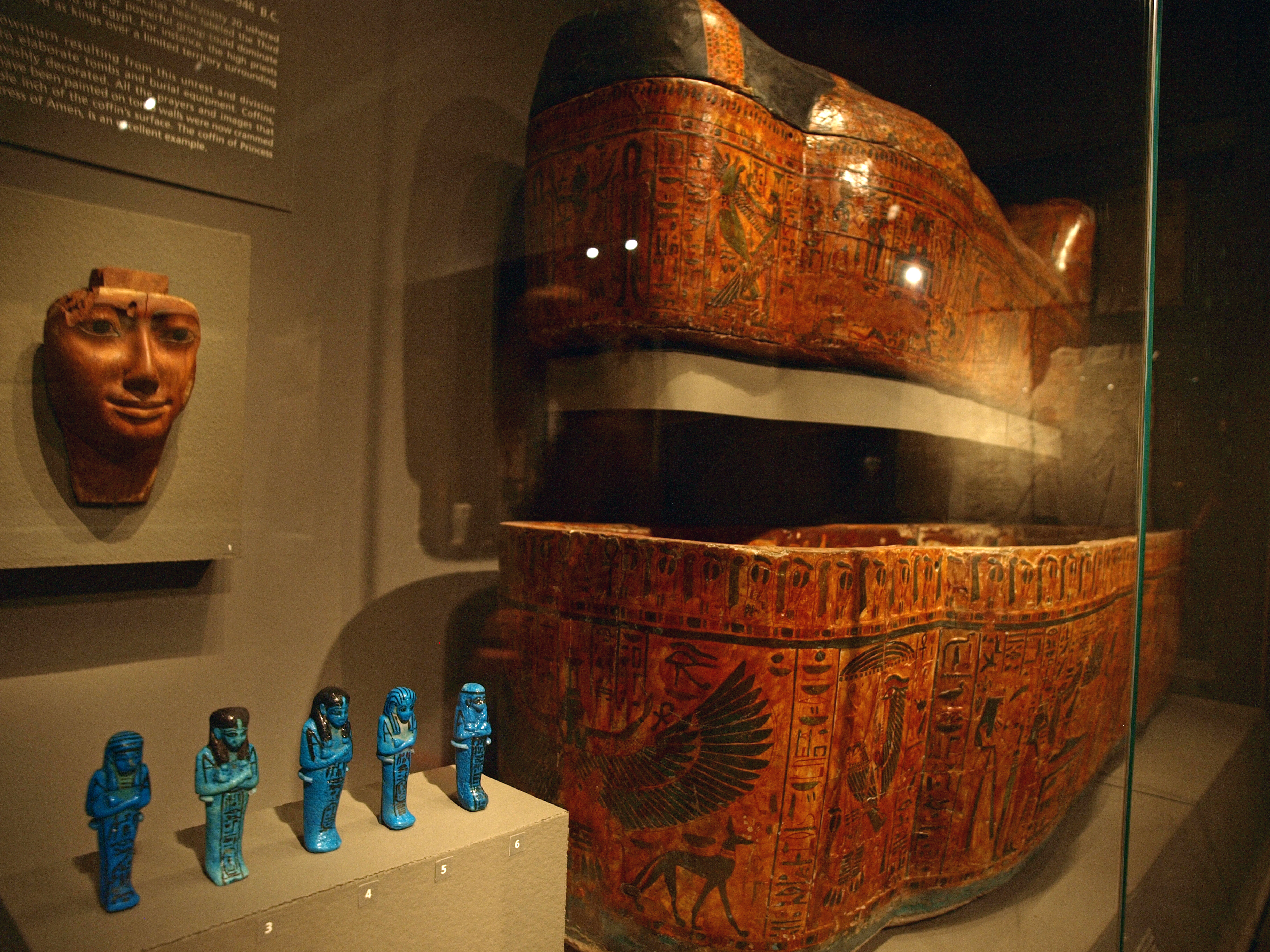 Anthropoid coffin of the ancient Egyptian chantress of Amun, Henuttawy C, likely daughter of the High Priest of Amun Menkheperre as well as sister-wife of the HPA Smendes II. Painted wood from Deir el-Bahri, Tomb MMA 60; 21st Dynasty, Third Intermediate Period. Museum of Fine Arts, Boston, acc. 54.639-40.